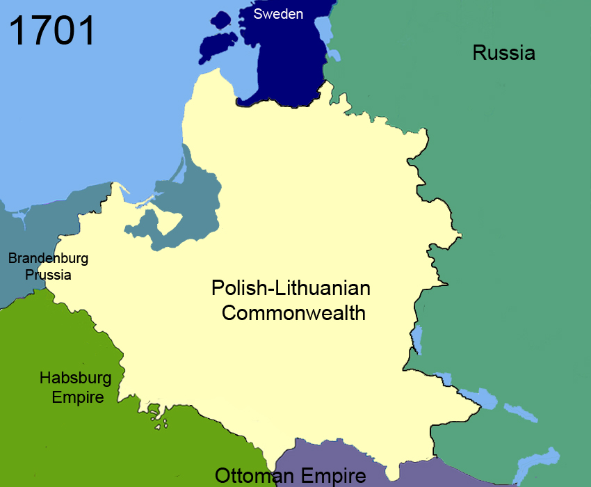 Territorial changes of Poland